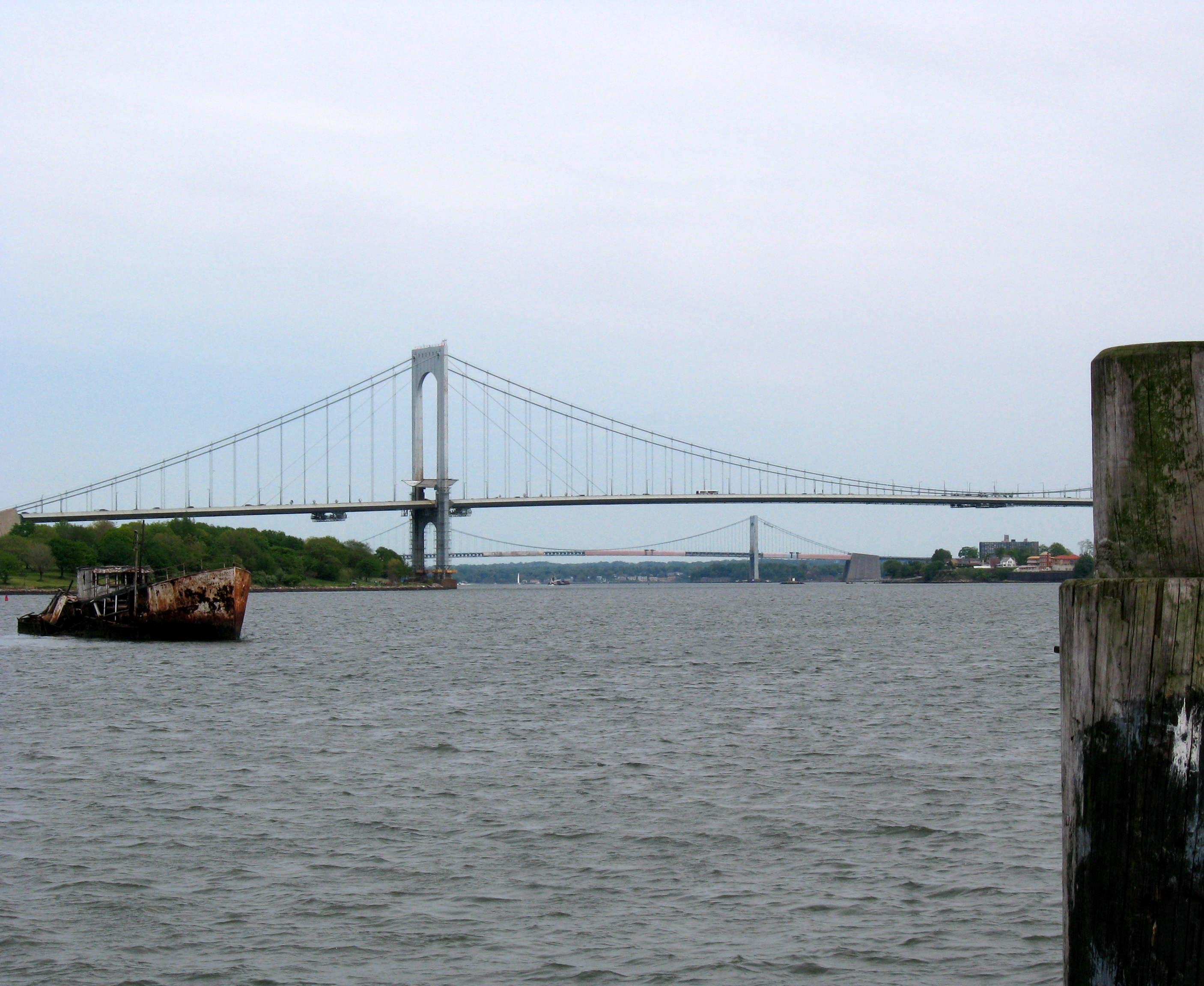 Looking east on an early afternoon from Clason Point Park, across Westchester Creek and along East River to Bronx-Whitestone Bridge and Throgs Neck Bridge.